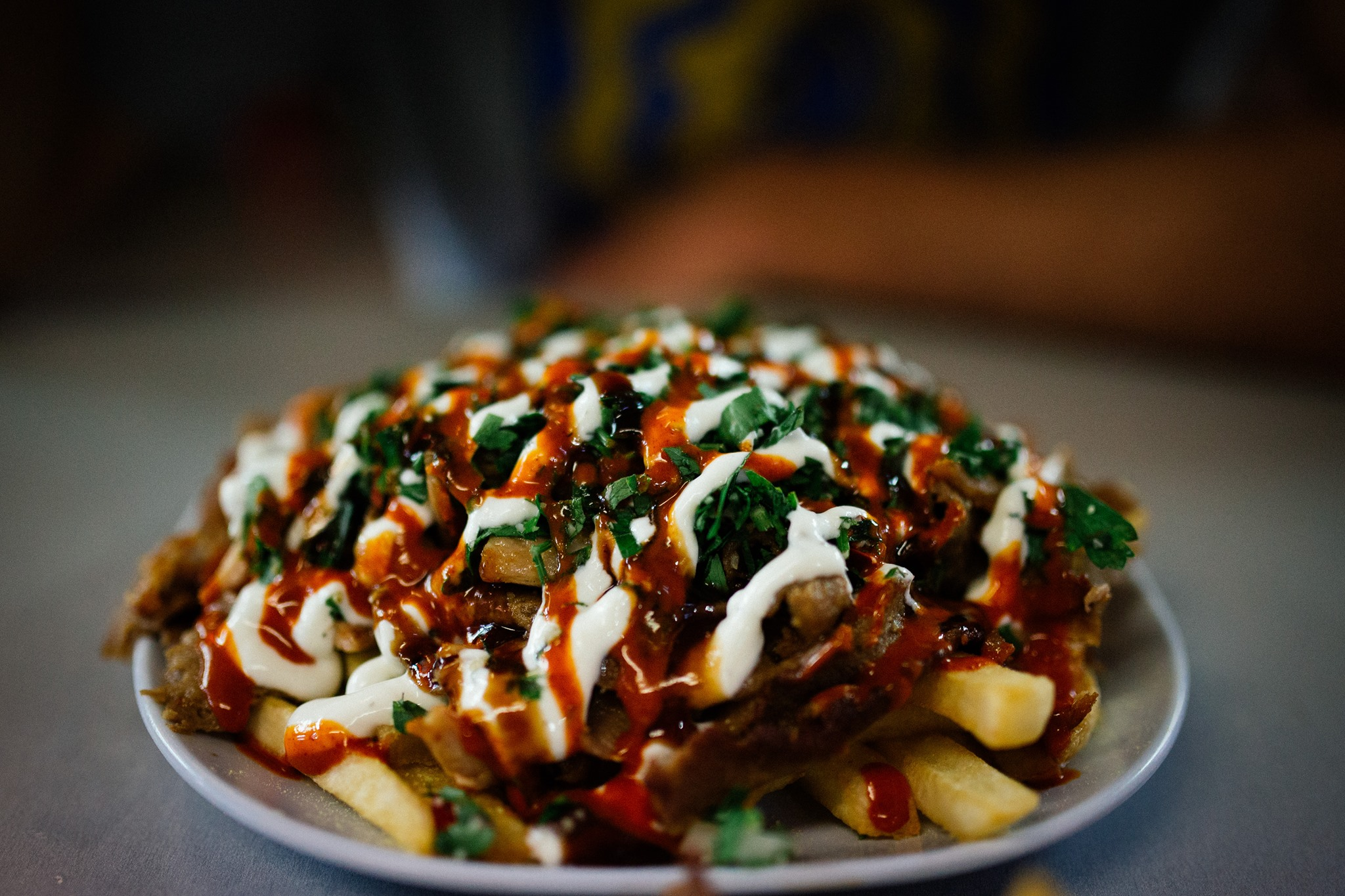 A Halal Snack Pack served on a ceramic plate, rather than in the conventional styrofoam box, and topped with tabouleh. Bought at King Kebab House, Campbeltown, NSW, Australia.